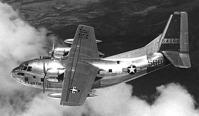 Fairchild C-123B-15-FA Provider 55-4568 Converted to C-123K. Sold to Air America as 568 Sep 1968. Returned to USAF Jun 1969. To Thai AF as 40568 Sep 16, 1971.